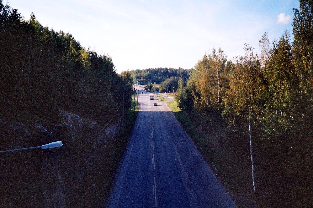 Connecting Road 1130 in Espoo, Finland